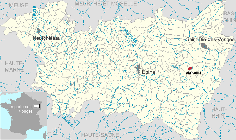 Vienville in the department of Vosges, Lorraine, France